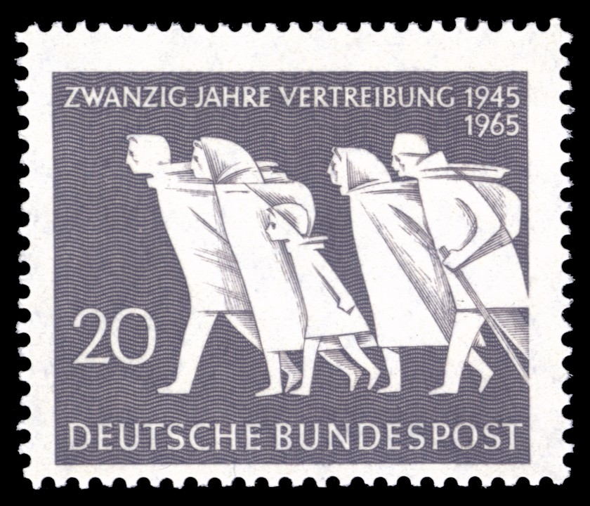 20 years displacement